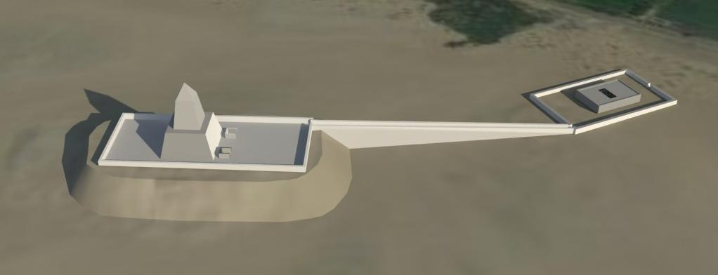 Userkaf sun Temple. Rendered image of a 3d model